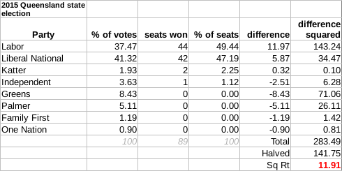 Gallagher Index, 2015 Queensland State Election